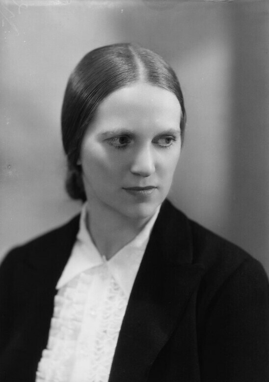 Ethel Edith Mannin by Bassano Ltd half-plate nitrate negative, 6 June 1939 Given by Bassano & Vandyk Studios, 1974 Photographs Collection NPG x18691